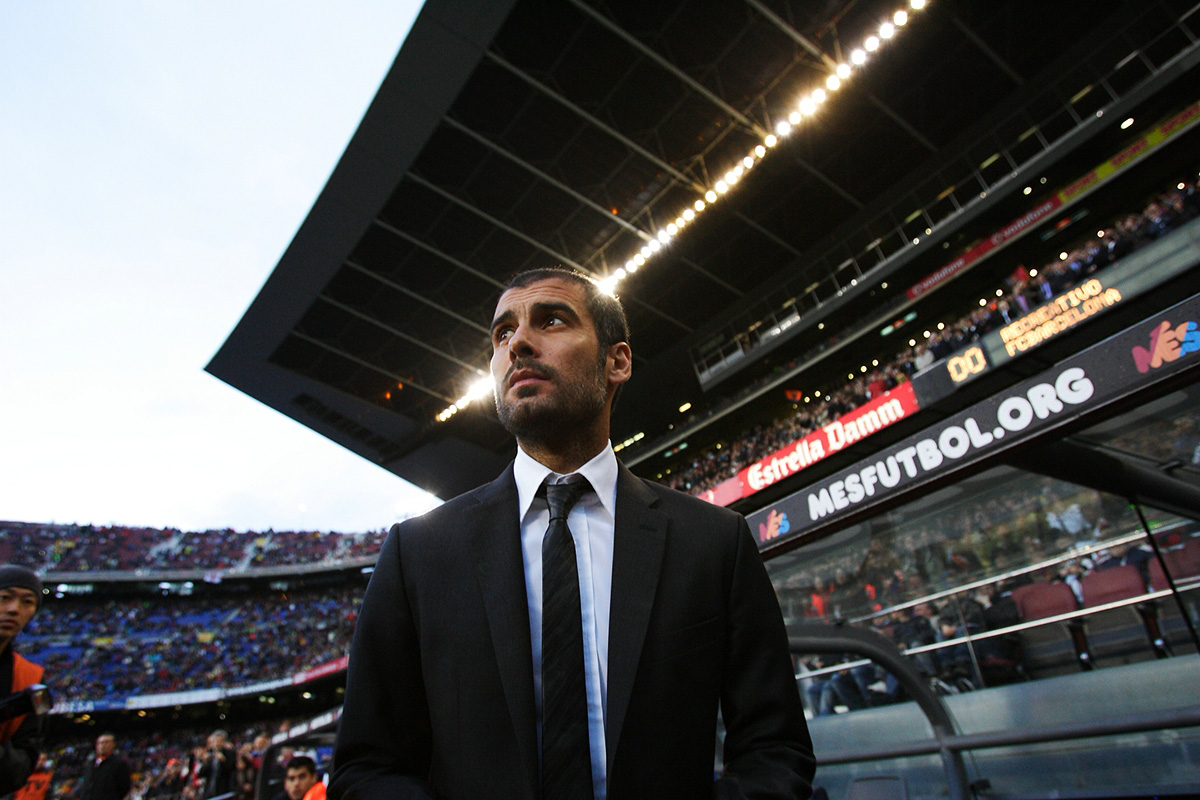 APRIL 11, 2009 - Football : Manager Josep Guardiola of FC Barcelona during the La Liga match between Barcelona and Recreativo Huelva at the Camp Nou Stadium on April 11, 2009 in Barcelona, Spain. Barcelona won the match 2-0. (Photo by Tsutomu Takasu)